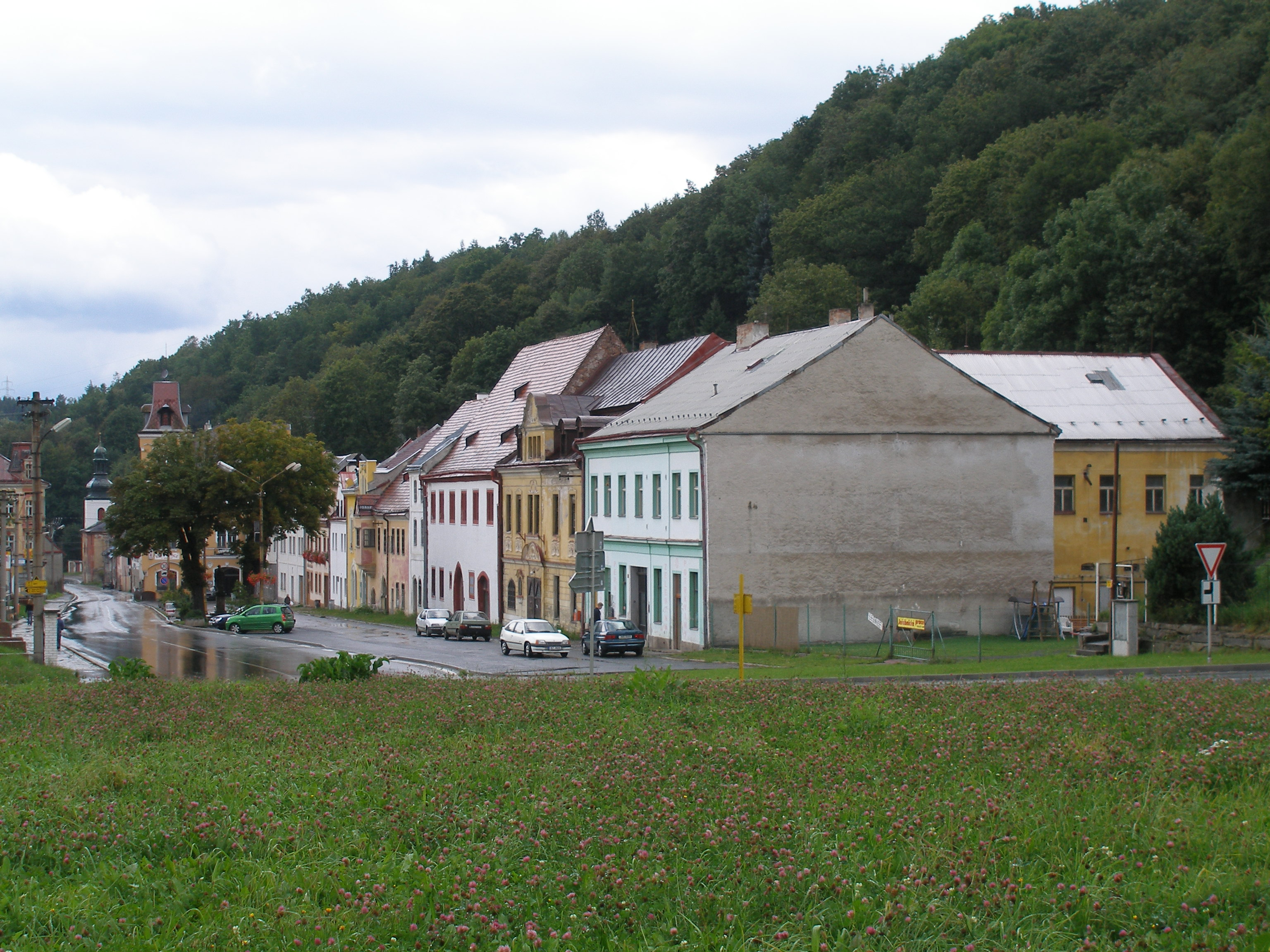 Rest of the square in Horní Slavkov